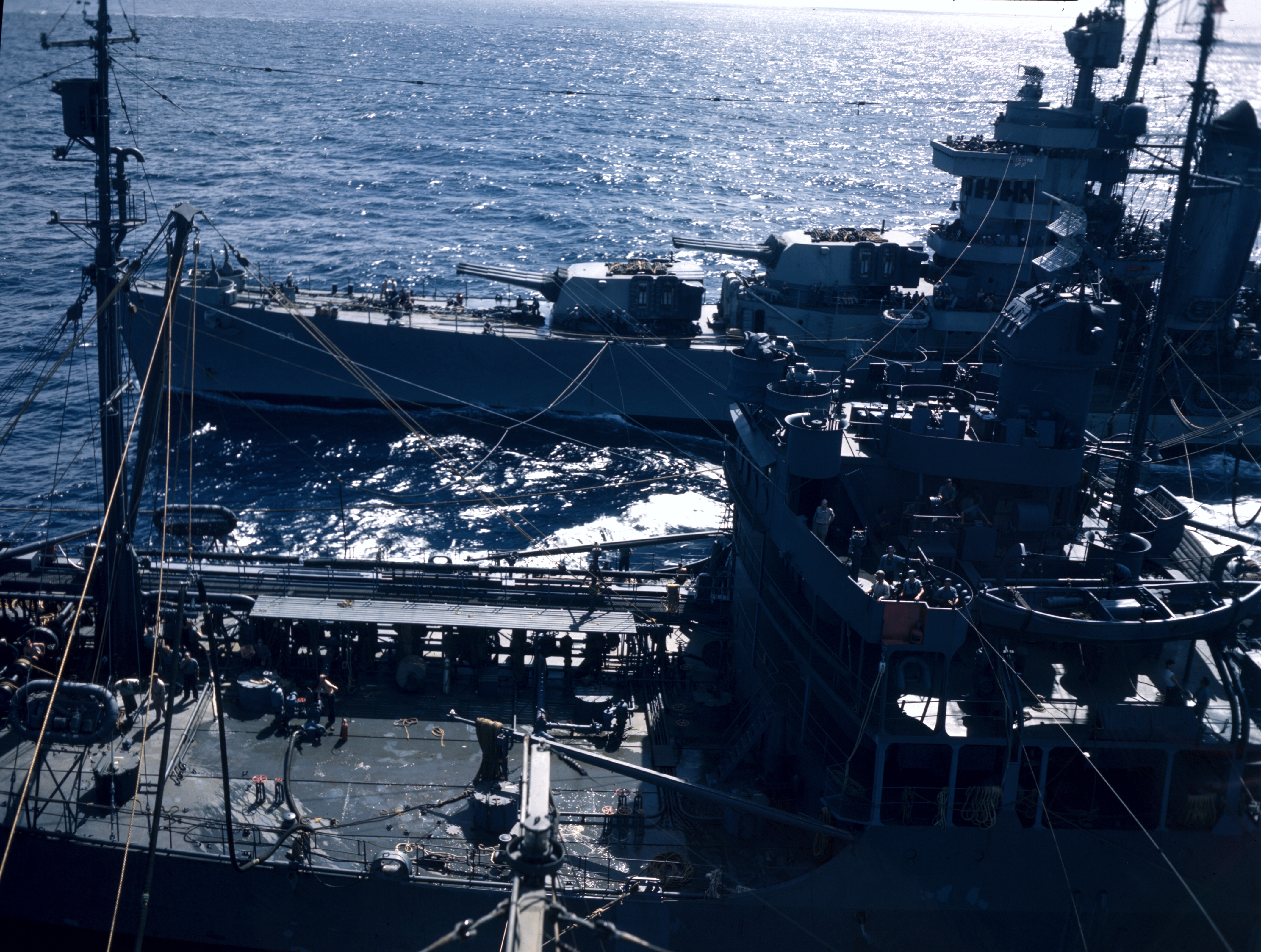 The U.S. Navy heavy cruiser USS Minneapolis (CA-36) refueling at sea from a fleet oiler, during the Marshall Islands operation, January 1944. The oiler is one of the few that were fitted with a Mark 37 gun director, visible atop her bridge. Note the red navigation light on the oiler's port bridge wing.